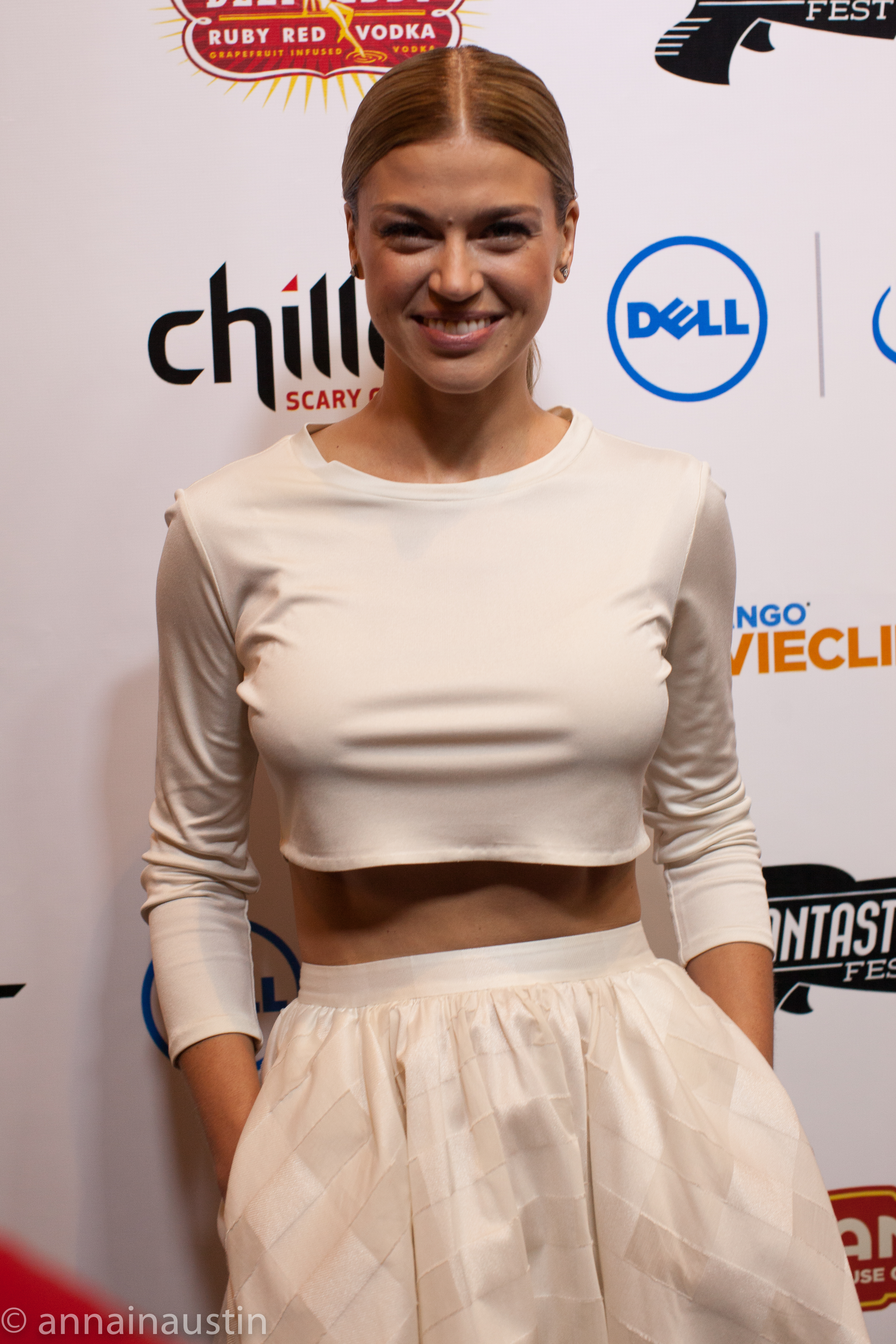 Adrianne Palicki, John Wick Red Carpet, Fantastic Fest 2014 Austin, Texas 2014